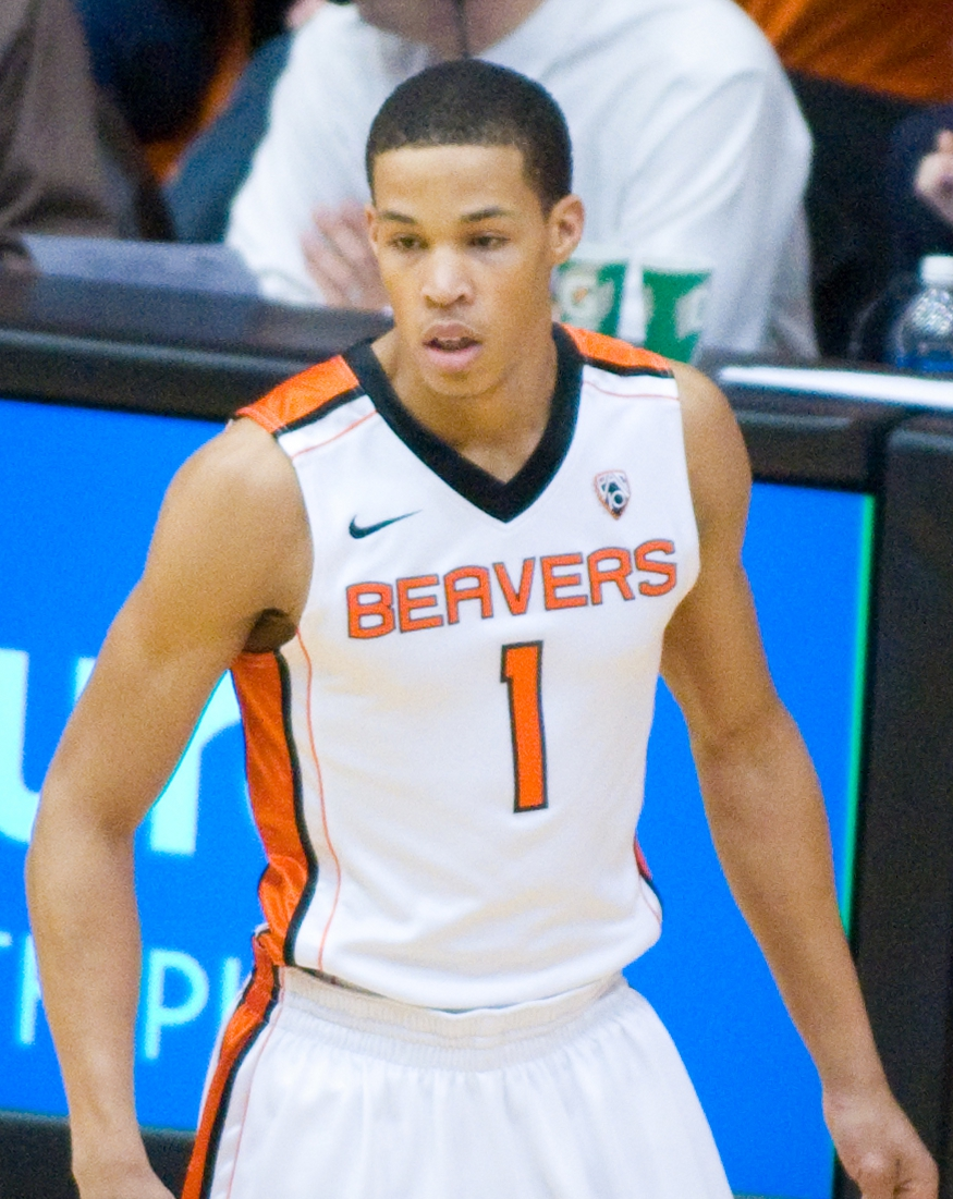 Jared Cunningham with the Oregon State Beavers, December 2010.